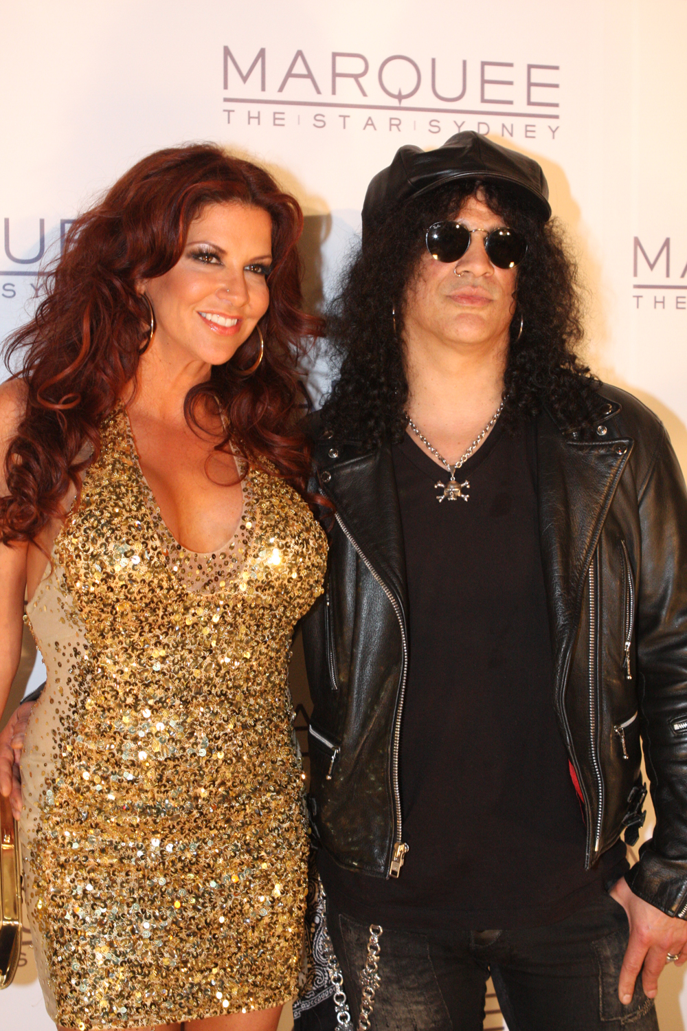 Slash and Perla Hudson at the Marquee The Star, Sydney opening